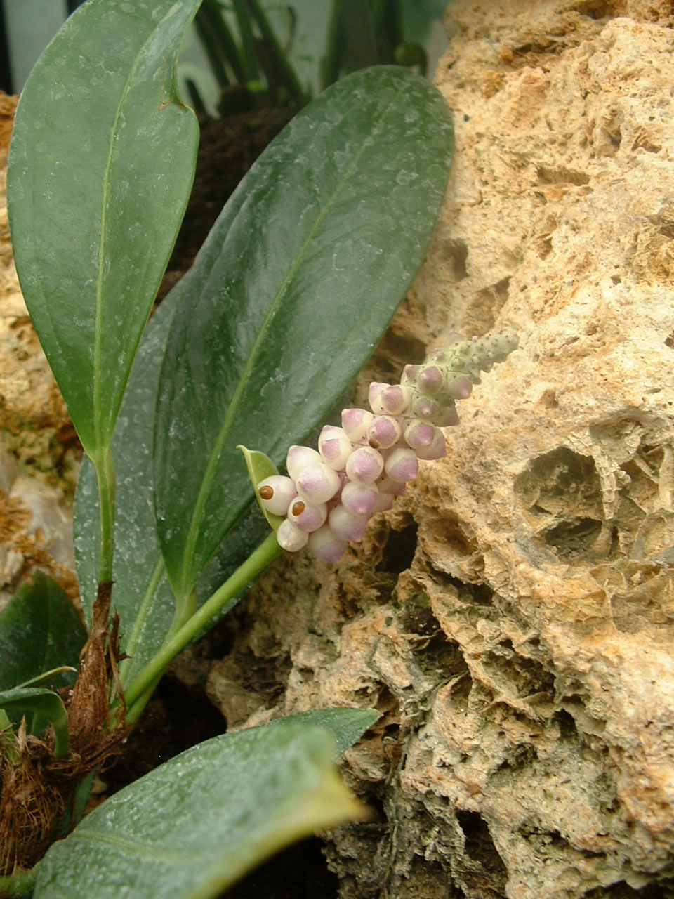 photo : Jardin botanique de Lyon